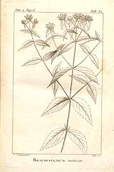 This is a plate from Michaux's work describing North American flora.